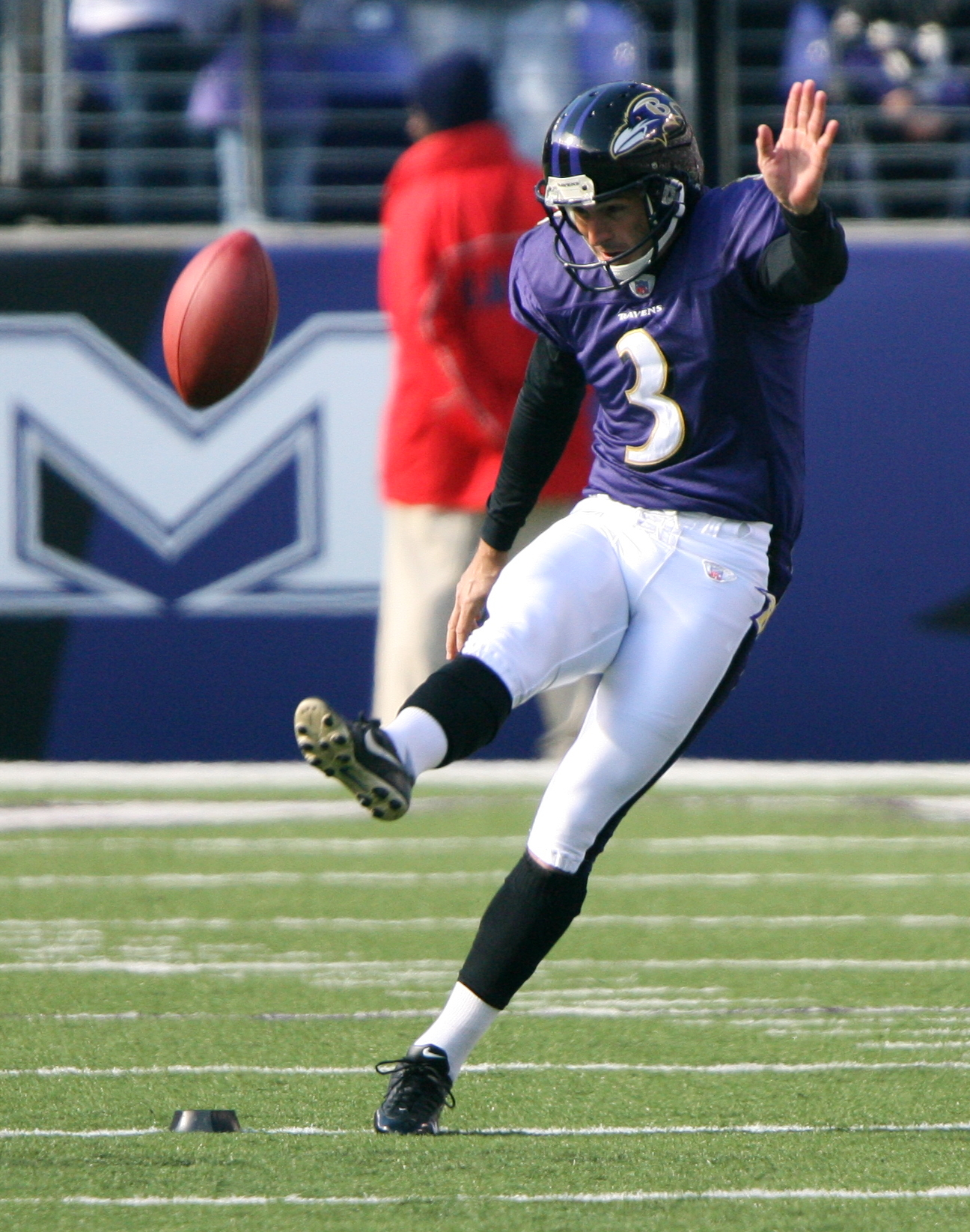 Matt Stover, American football player for the Baltimore Ravens (at time of photo)